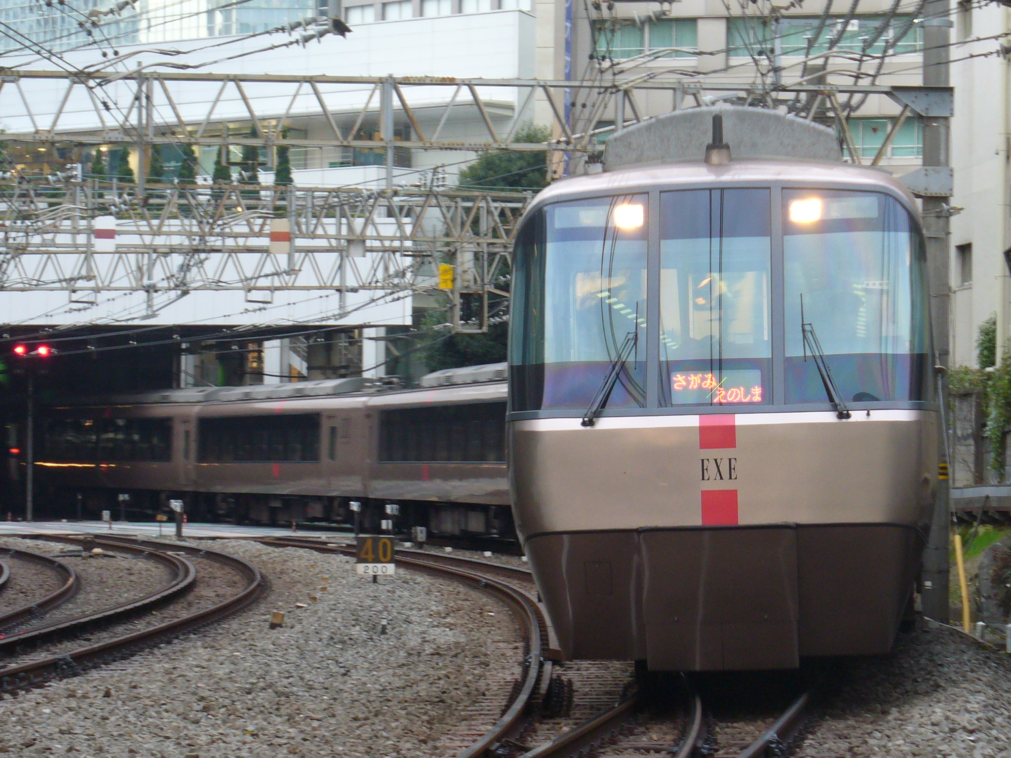 An Odakyu 30000 series "EXE" EMU departing from Shinjuku Station on a combined Sagami + Enoshima service